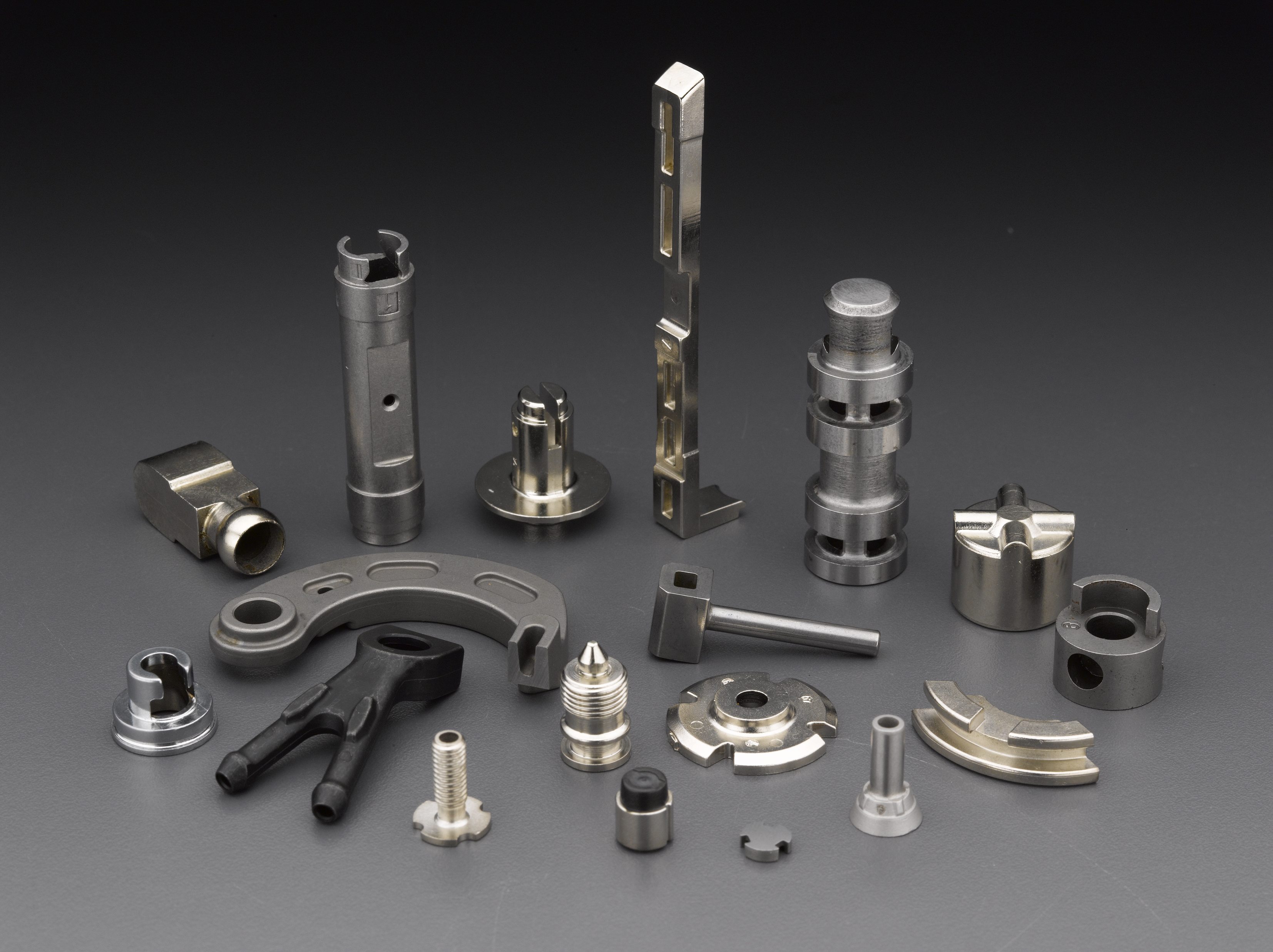 INDO-MIM Automotive Sector Metal Parts group